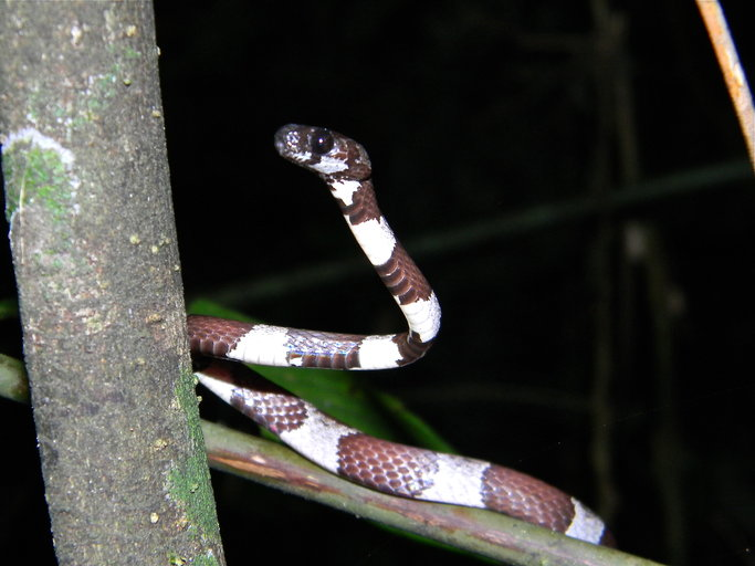 Sibon dimidiatus in Berriozabal, Chiapas (Mexico)